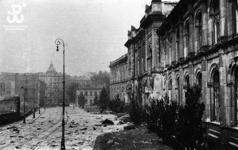 WarsawUprising: Building of Polish Bank at Bielańska Street. In the back Radziwiłł Palace.